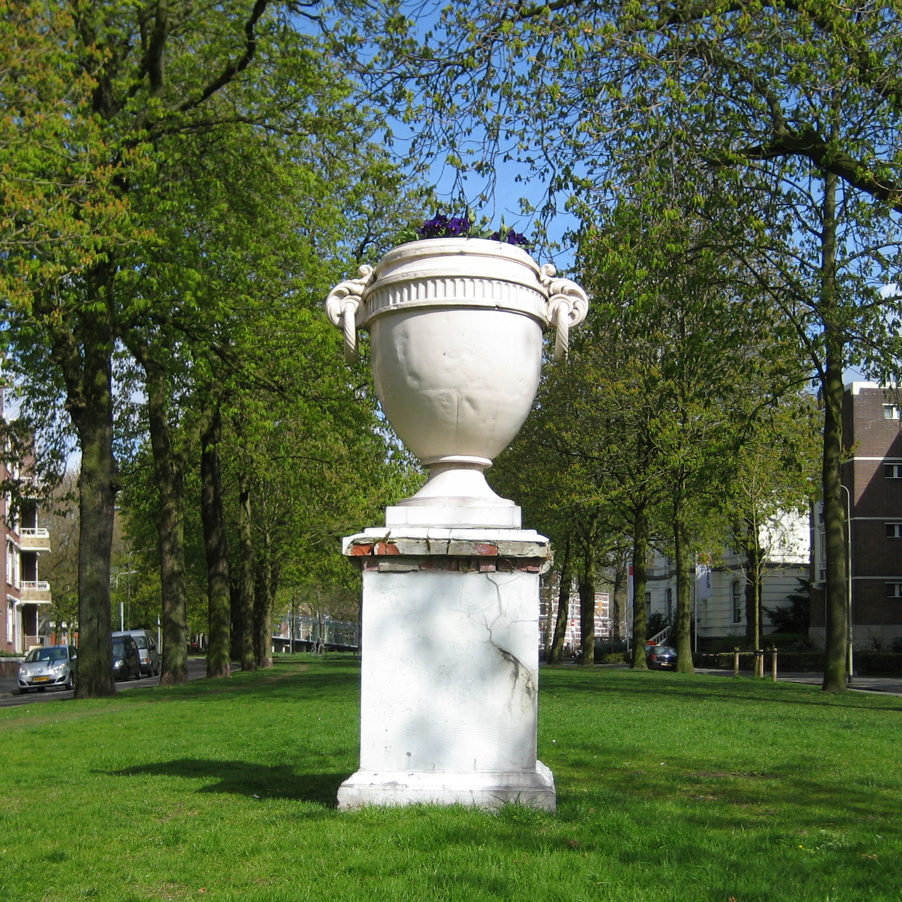 Garden vase (ca. 1885) in the Dutch city of Groningen.